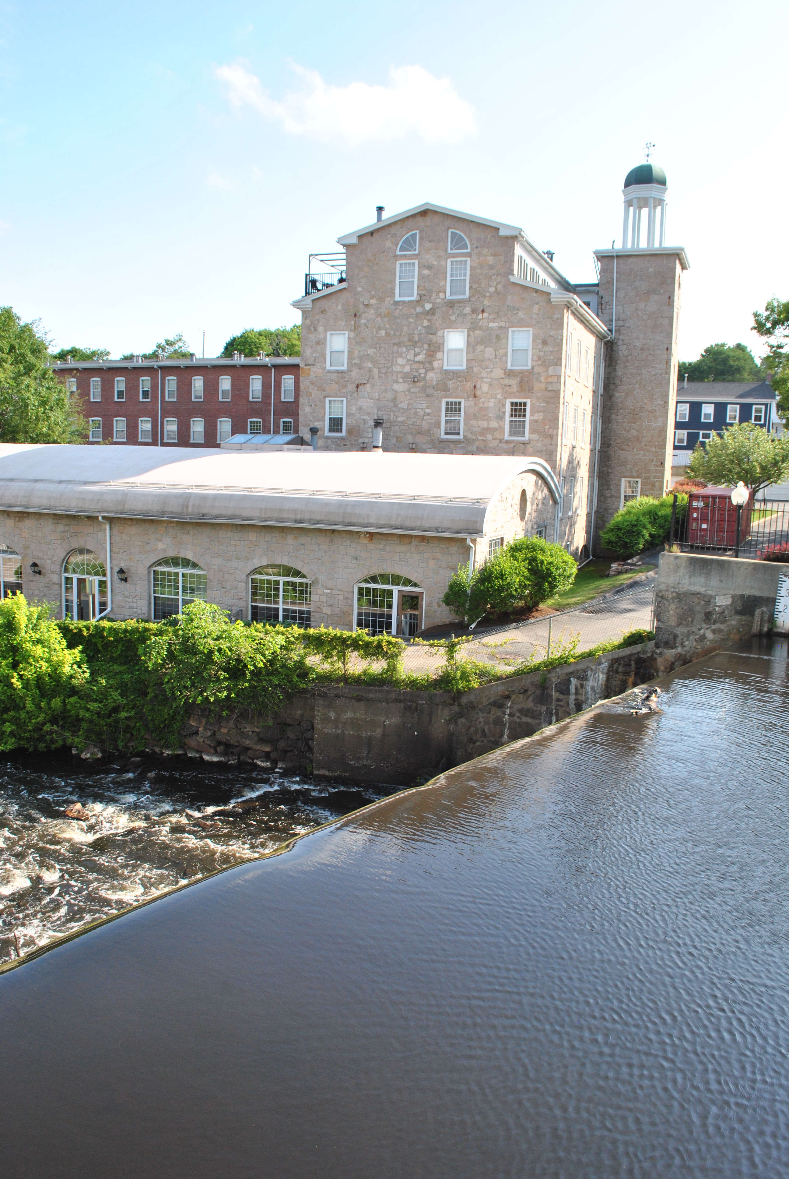 Centennial Dam and the Stone Mill condos as seen from the Oakland Street side